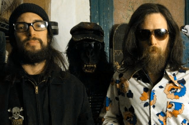 Photograph of Clayton and Neil, the band being Bull of Heaven.;Other information: Again, the image is made by Clayton, and he has on numerous occasions given me permission to use this file to represent the band. The image contains proof that he accepts it to be Public Domain.